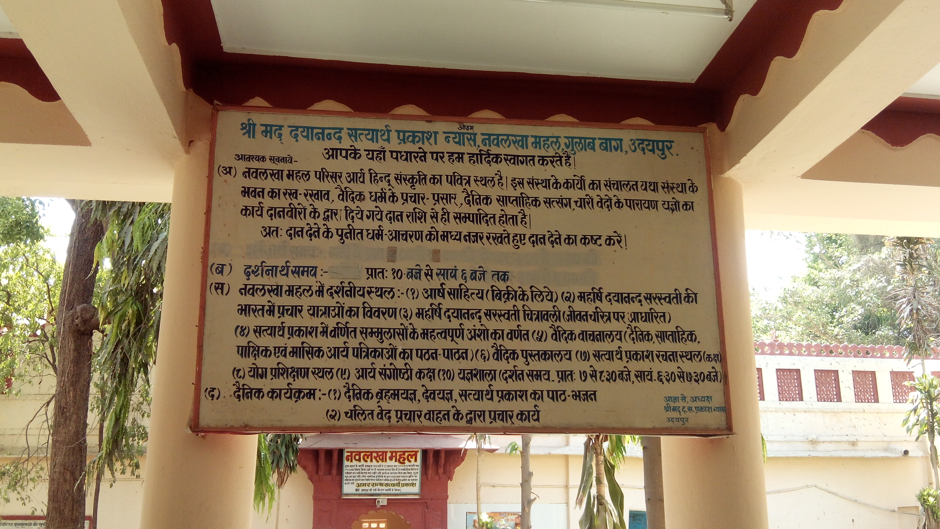 Picture showing the information panel inside the Navlakha Mahal. It displays a welcome message for the guests, and provides information about visiting hours, key attractions within this museum, and daily routine activities performed.